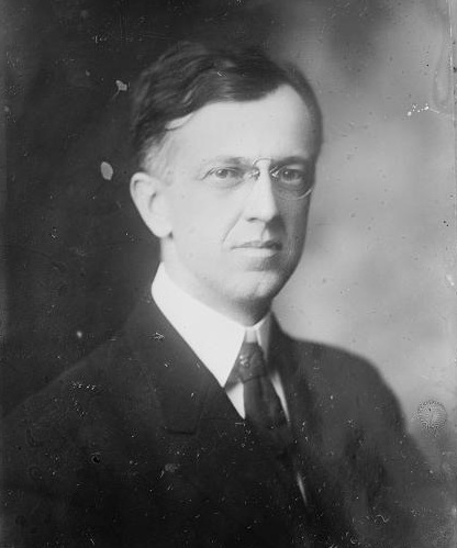 Frederick M. Davenport, New York Congressman